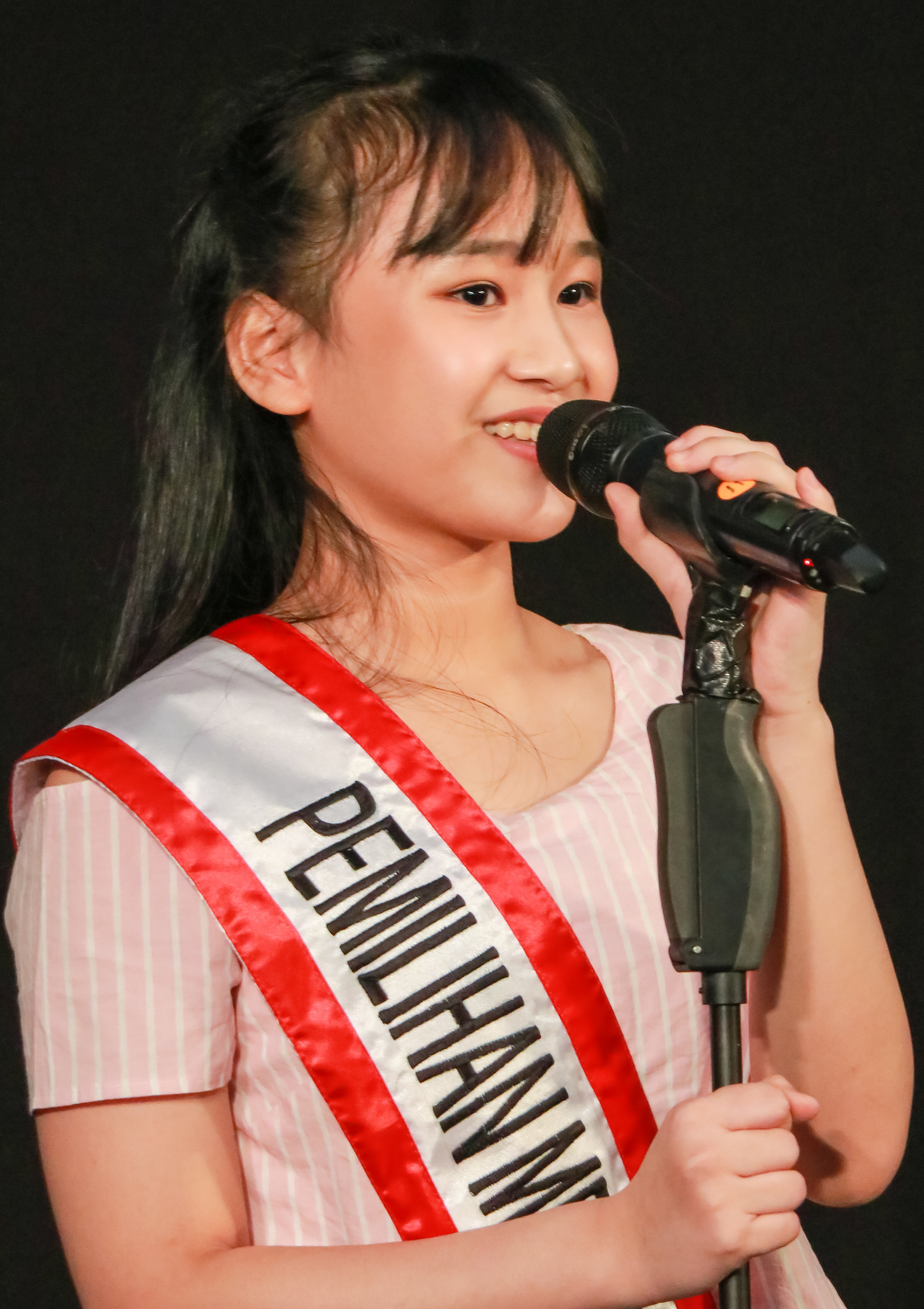 Cindy Nugroho on 5 October 2019